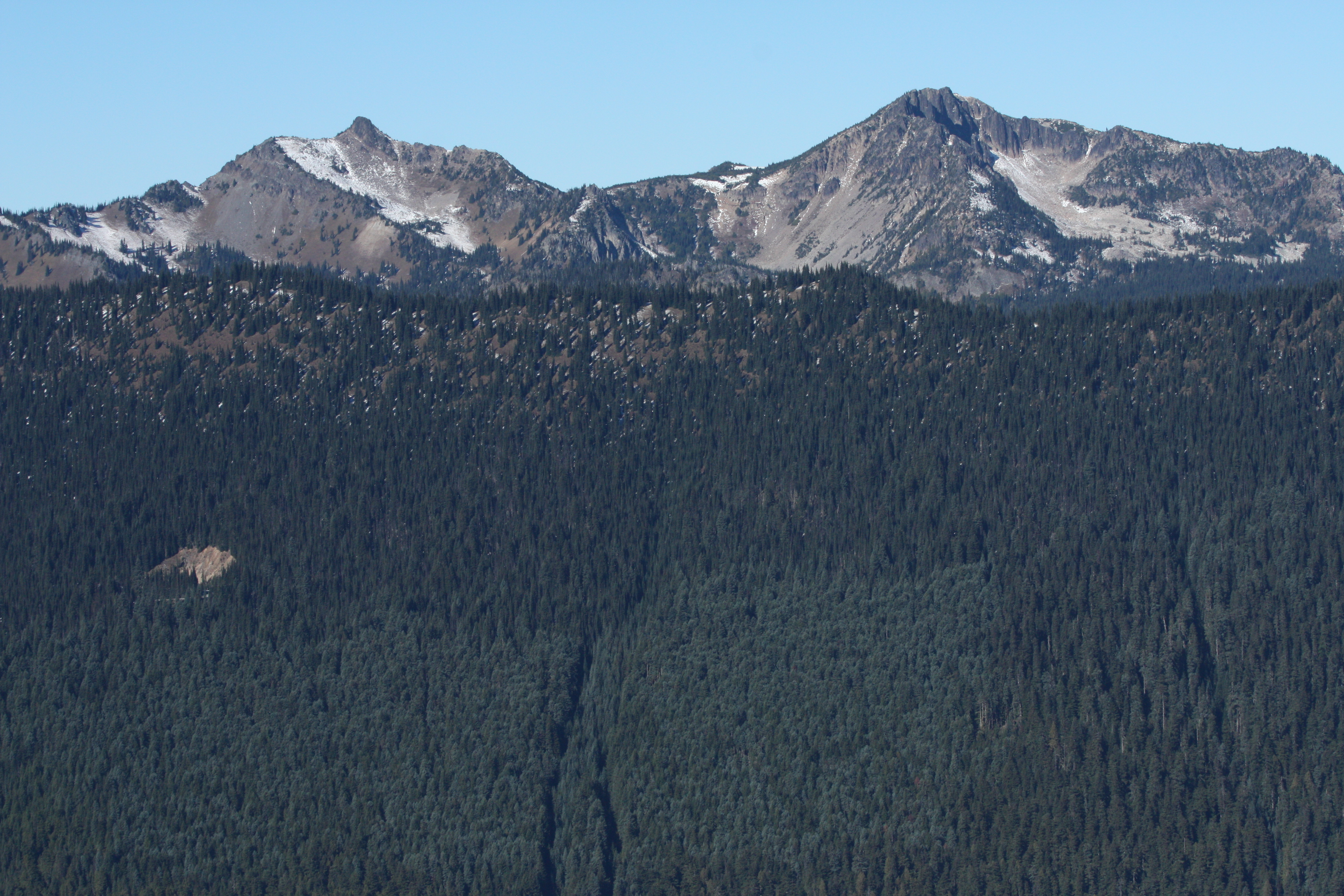 Palisades Peak (7040+ feet, 2146+ m, right); Marcus Peak (6962 feet, 2122 m, left)